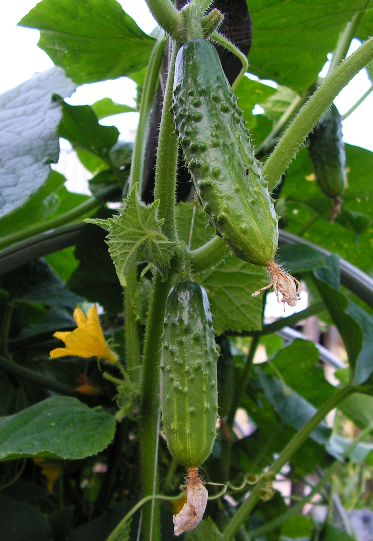 The fruits of Cucumis sativus. Moscow region, Russia.